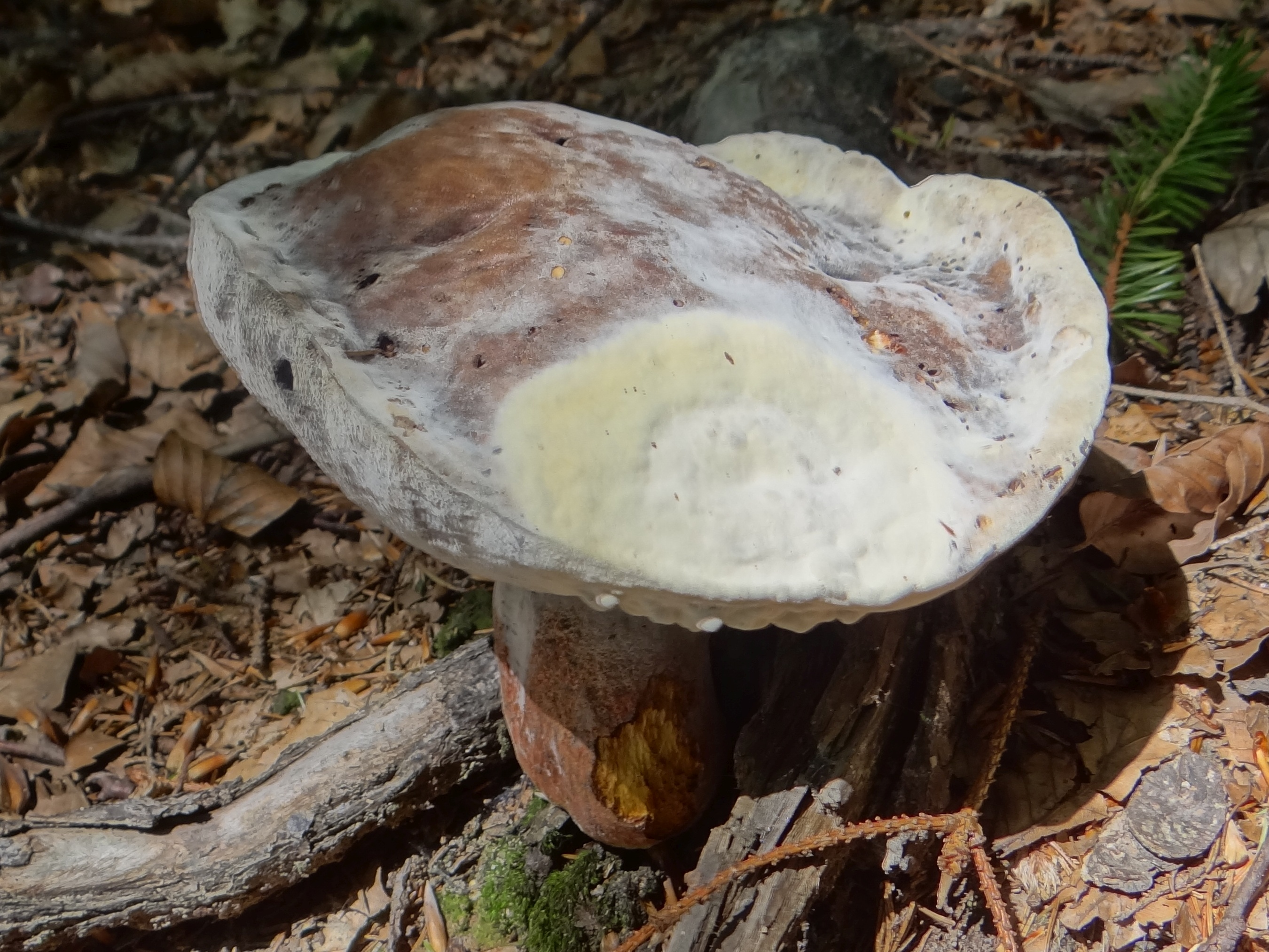 Hypomyces chrysospermus on Neoboletus luridiformis (location: Poland, Beskid Wyspowy, Łopień)